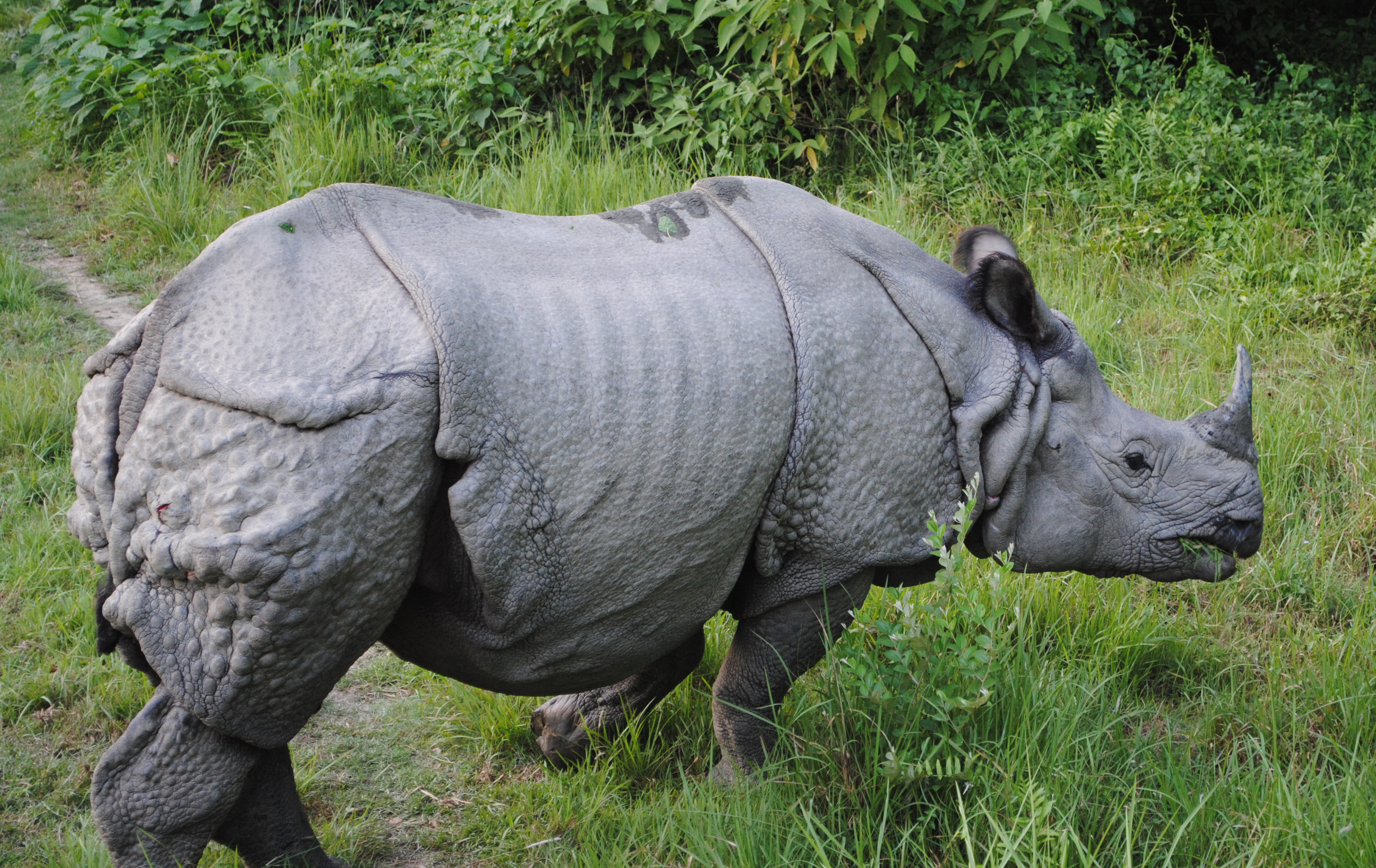 Rhinoceros in Bardiya Nepal